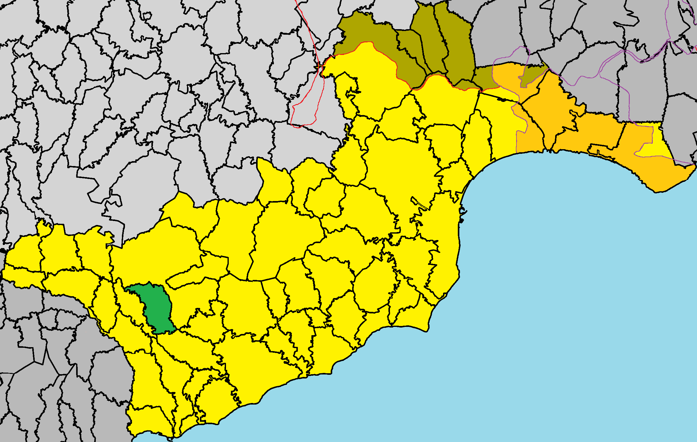 Kato Drys in Larnaca District.